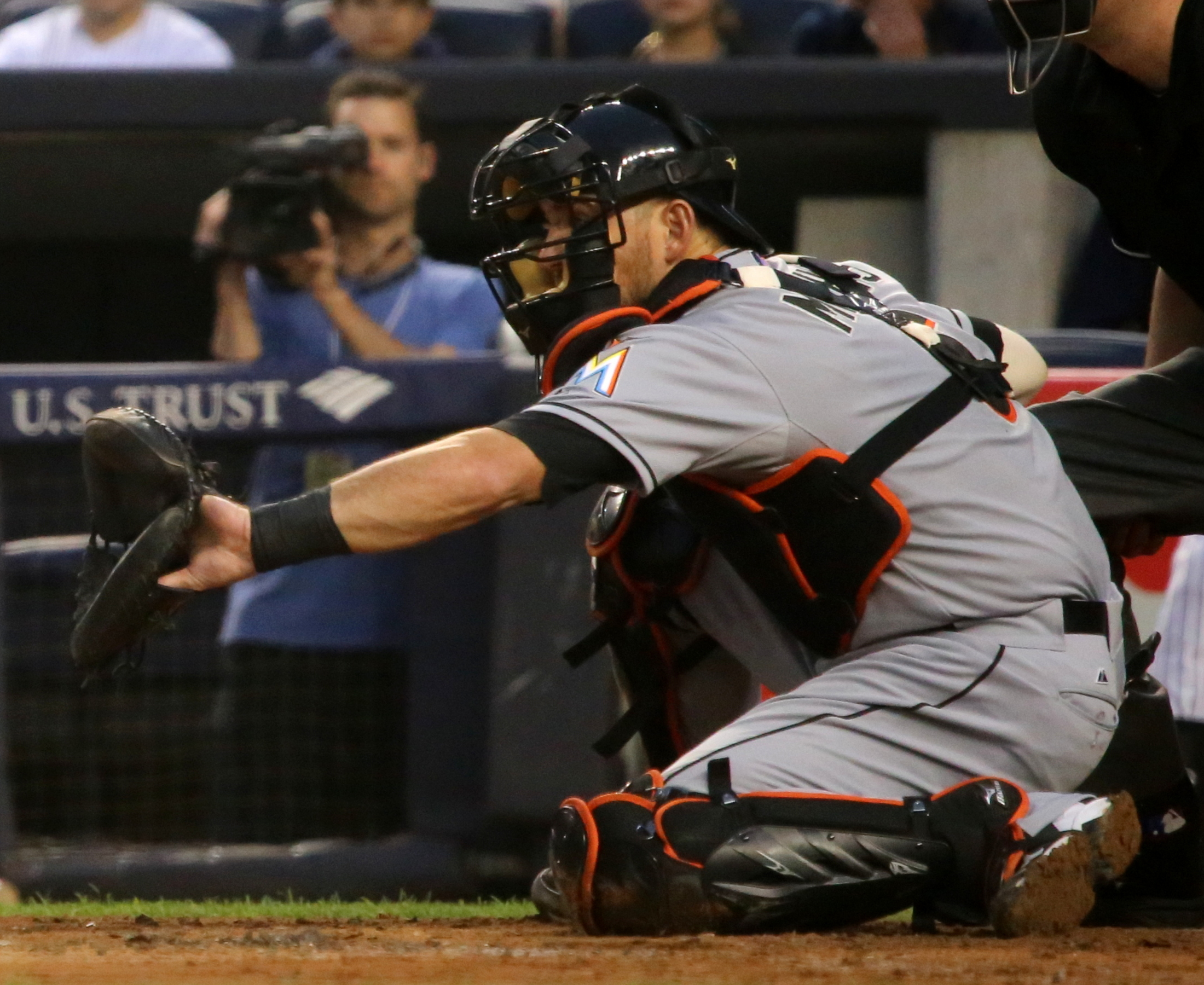 Jeff Mathis